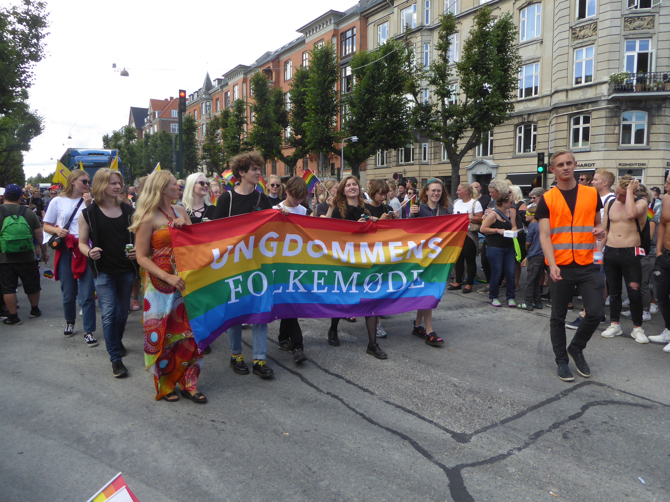 Ungdommens Folkemøde at Copenhagen Pride Parade on Frederiksberg Allé in Copenhagen.